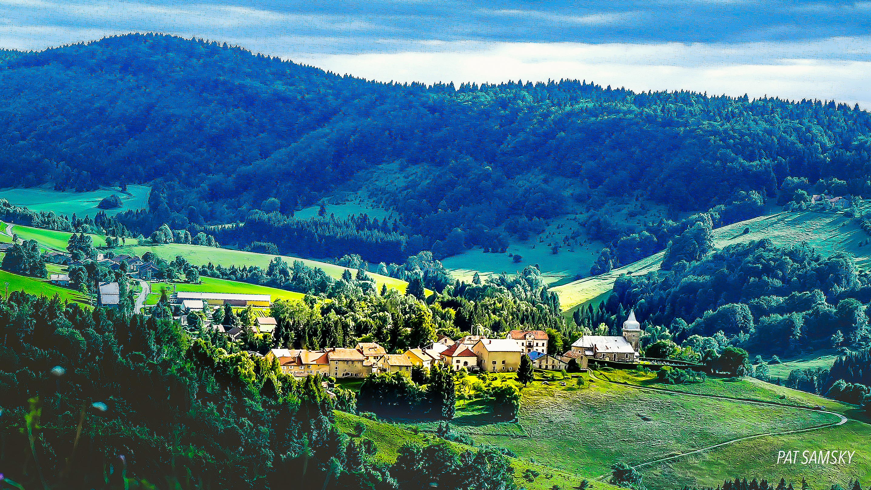 Photos